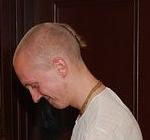 Śikhā